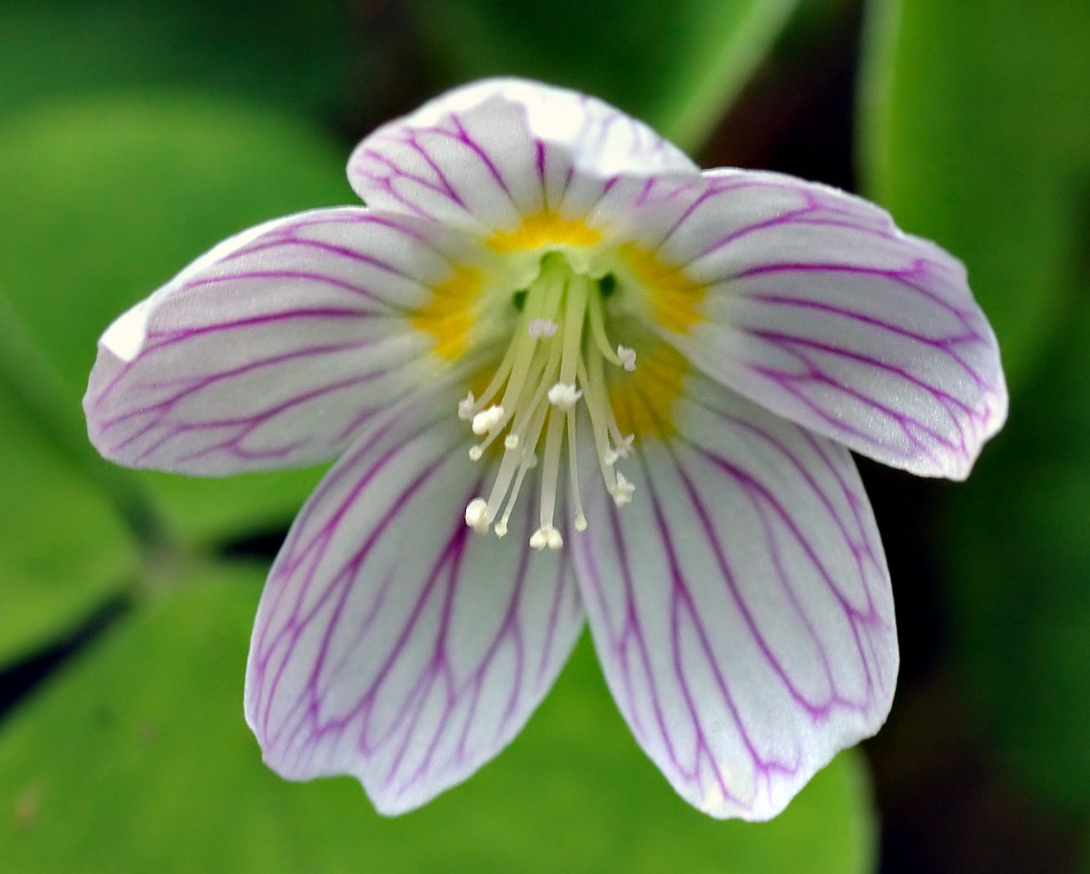 This image shows a common wood sorrel blossom (Oxalis acetosella).